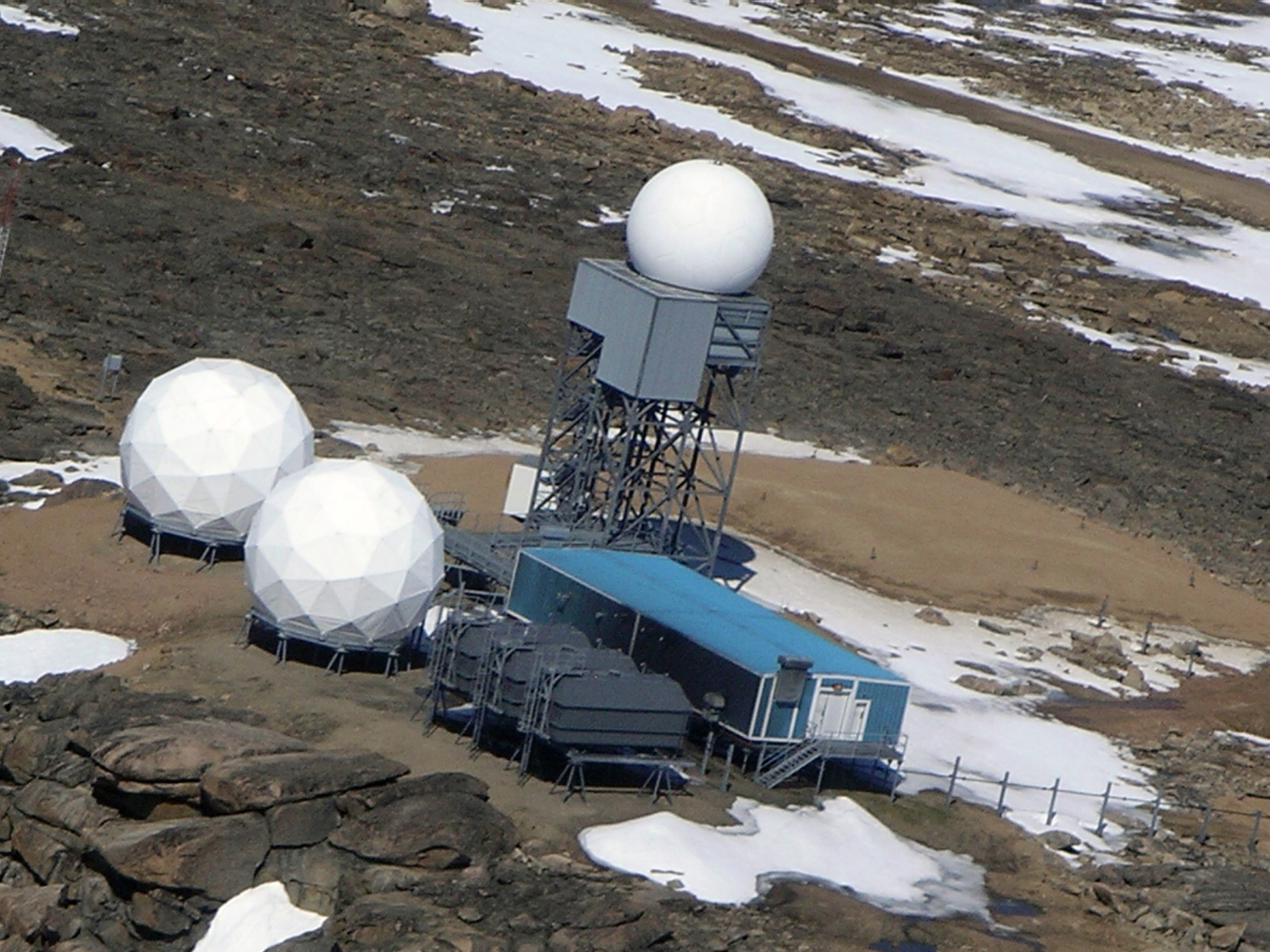 New radar facility atop Broughton Island.